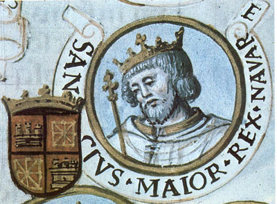 Sancho III of Navarre